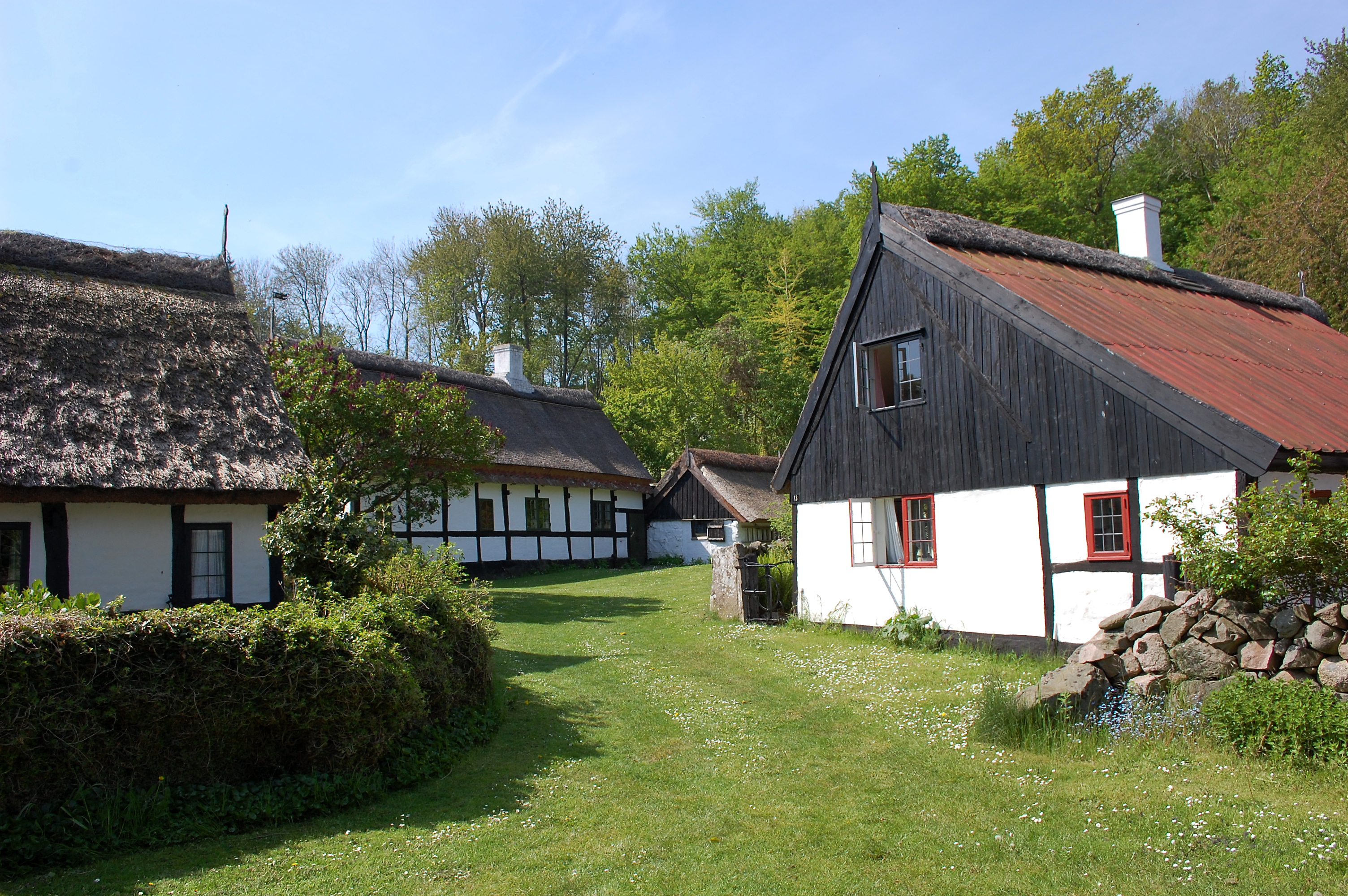 Old houses in Ypnasted on the north coast of Bornholm, Denmark